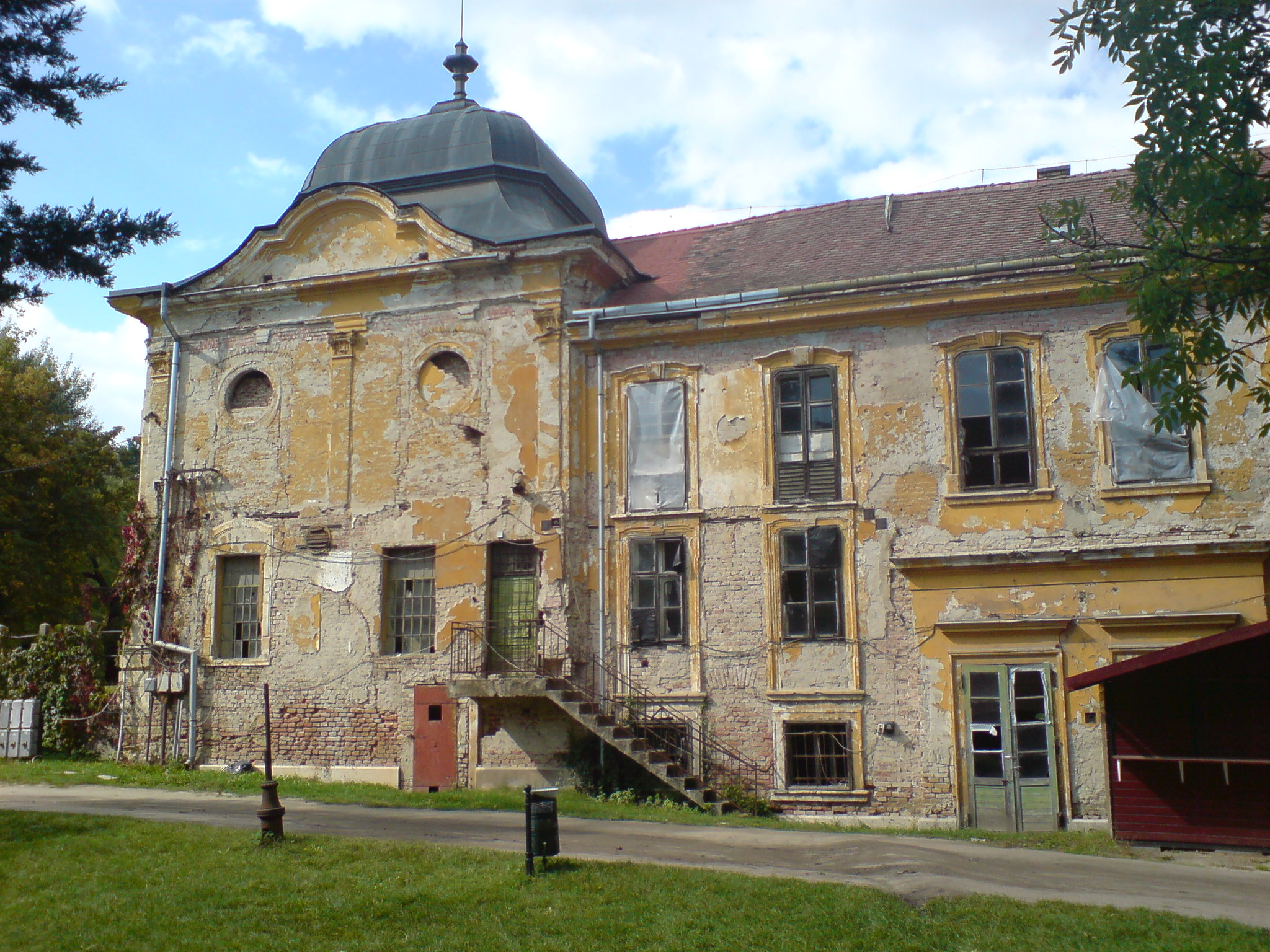 Gödöllö Nordflügel This is a photo of a monument in Hungary, Identifier: 7051